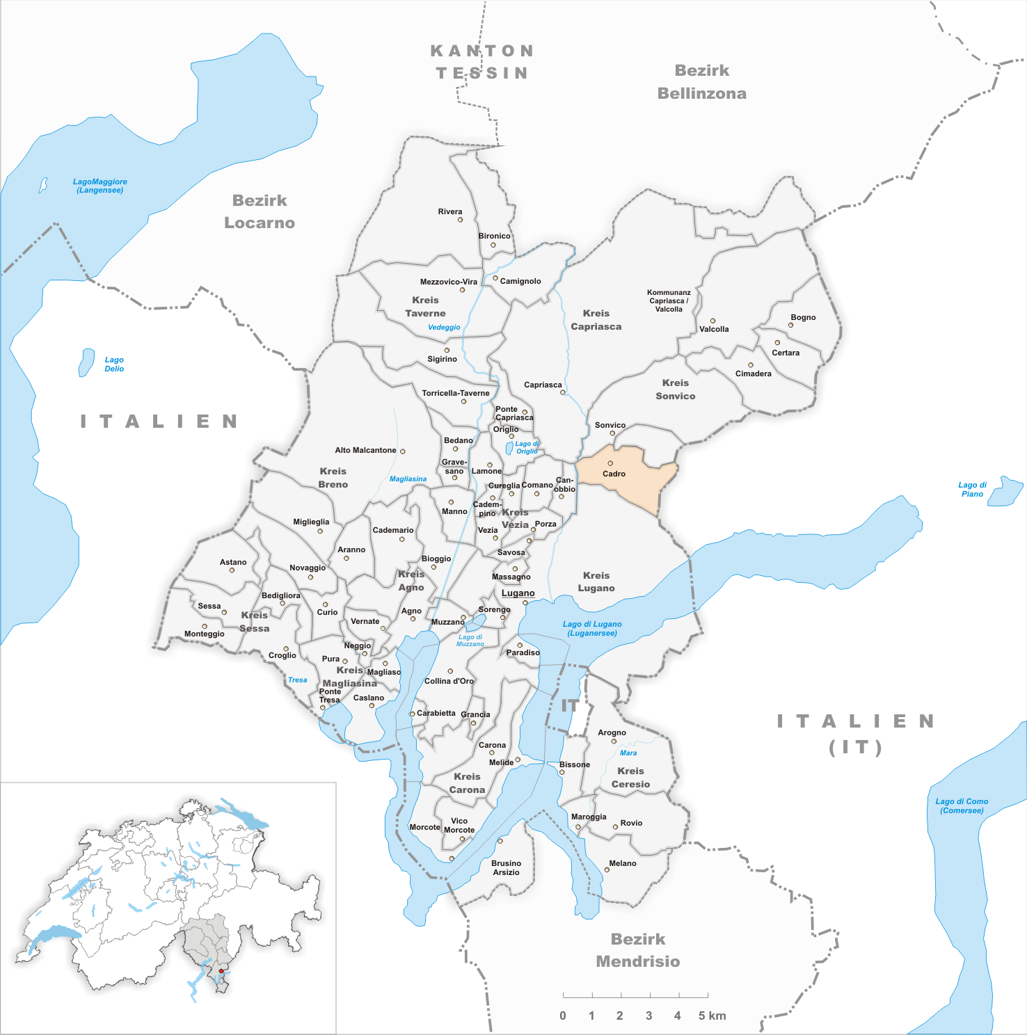 Municipality Cadro